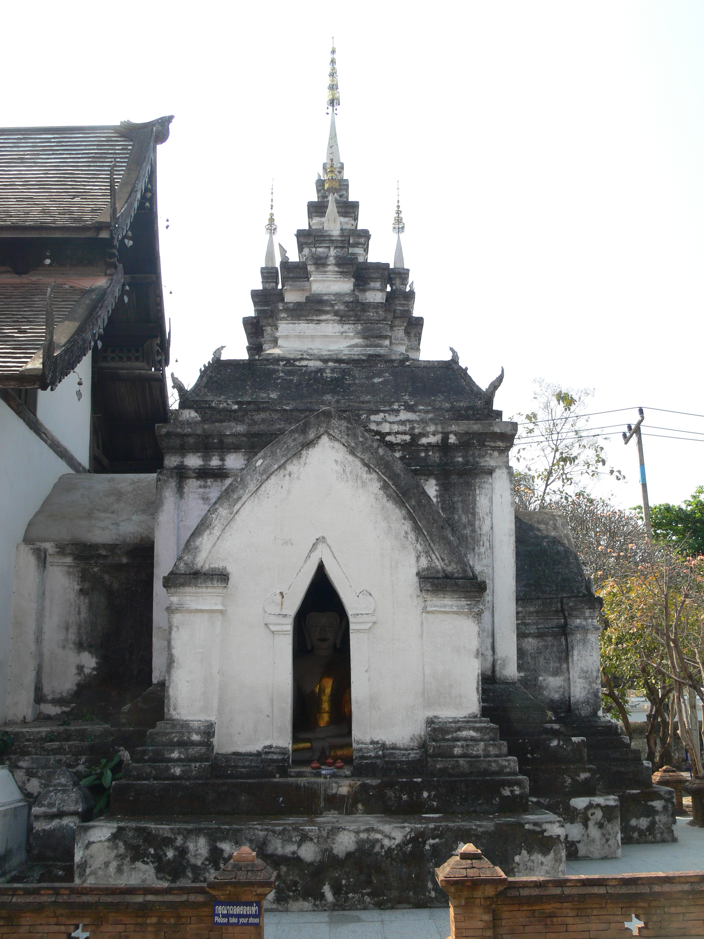 Connection between Wihan and Chedi. It is possible to enter the Chedi from the Wihan. Inside the Chedi is a big Buddha immage.